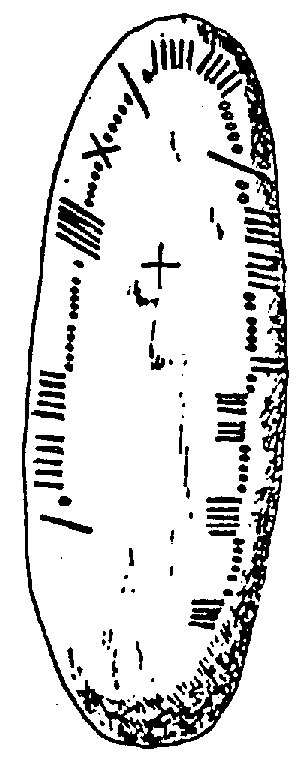 Ogam inscribed stone CIIC 156 (description and photo) read as "MAQQI IARI (K)[OI] MAQQI MUCCOI DOVVINIAS". Found at Ballintaggart, County Kerry, Ireland. "MAQQI MUCCOI DOVVINIAS" is understood as meaning that the stone commemorated a member of the Corco Duibne, rulers of the Dingle peninsula from earliest record times until the 12th century and after. – There are different readings of the inscription.